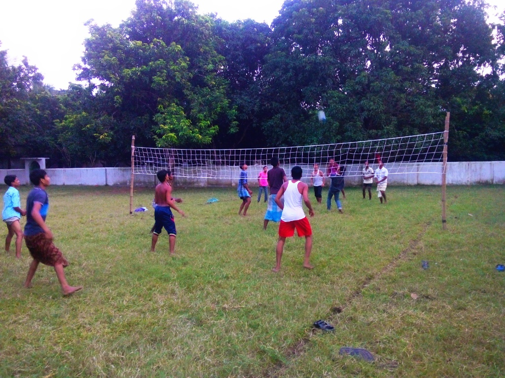 Local Boys Playing Volleyball